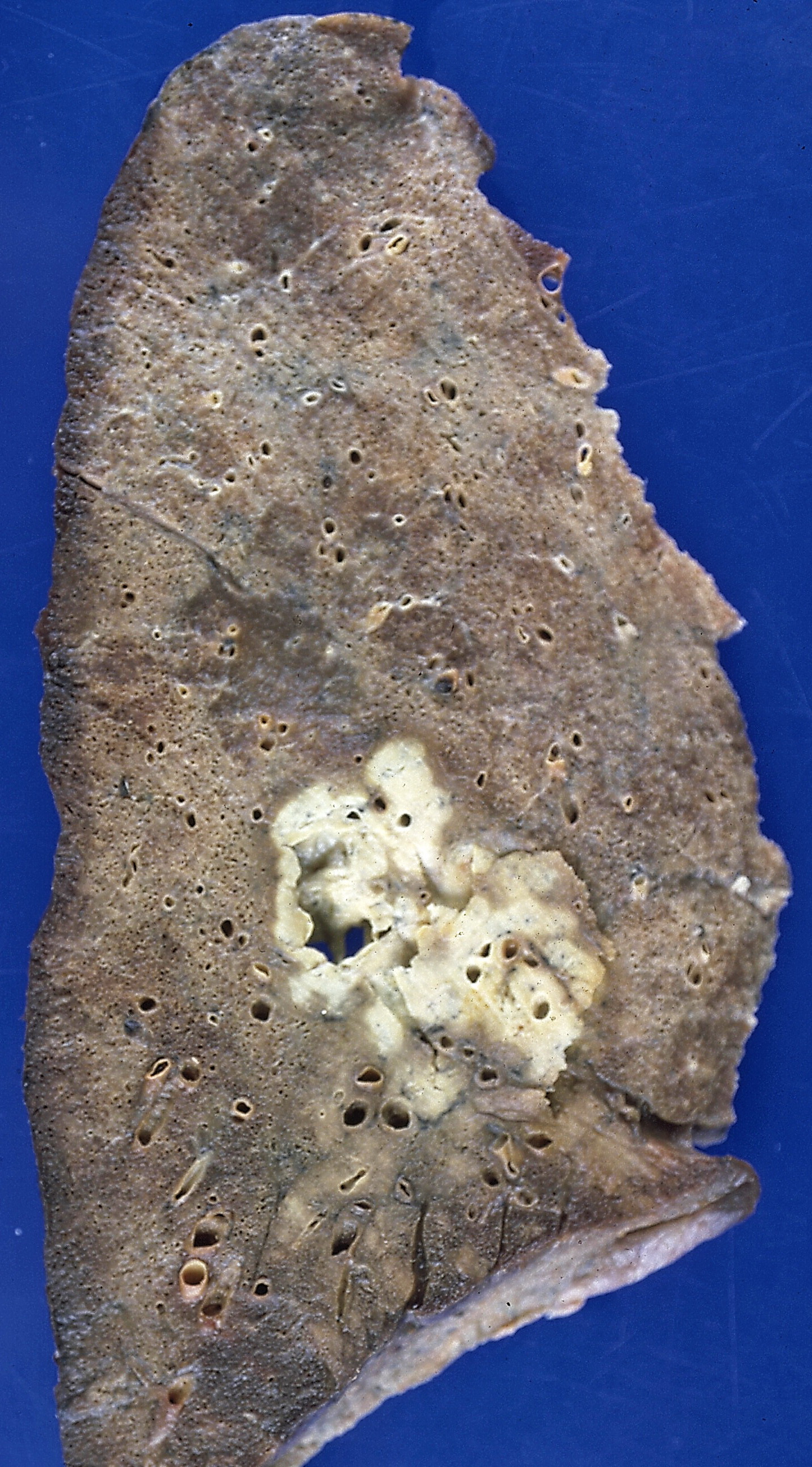 A well-circumscribed tuberculous lesion usually presenting as a "coin lesion" on chest X-ray . Usually a single nodule but may be more than one. The lesion seen here contains a small cavity.